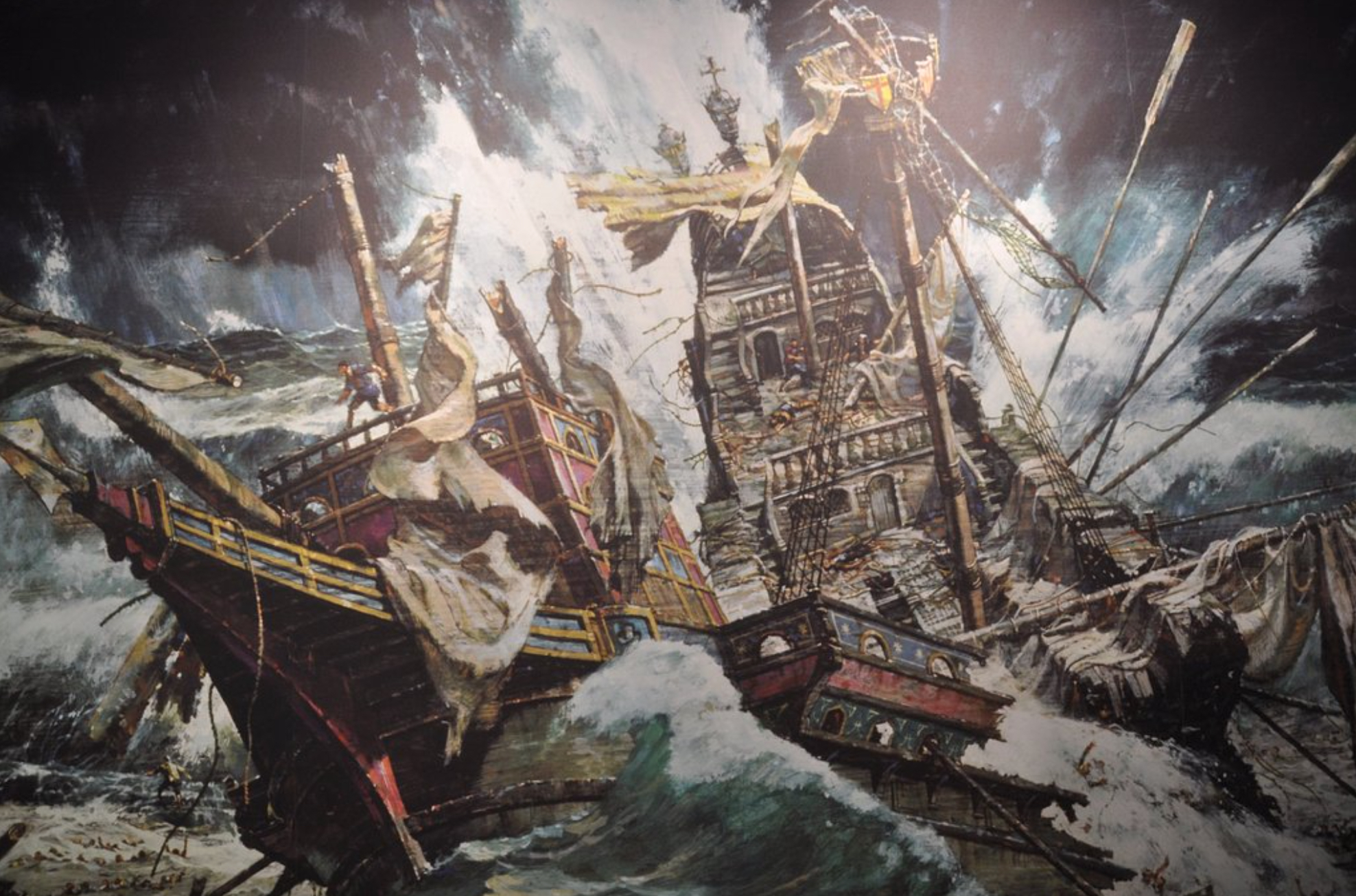 "Treasures from the Girona" permanent exhibit -- Ulster Museum, Stranmillis Road, Botanic Gardens, Belfast BT9 5AB, Northern Ireland